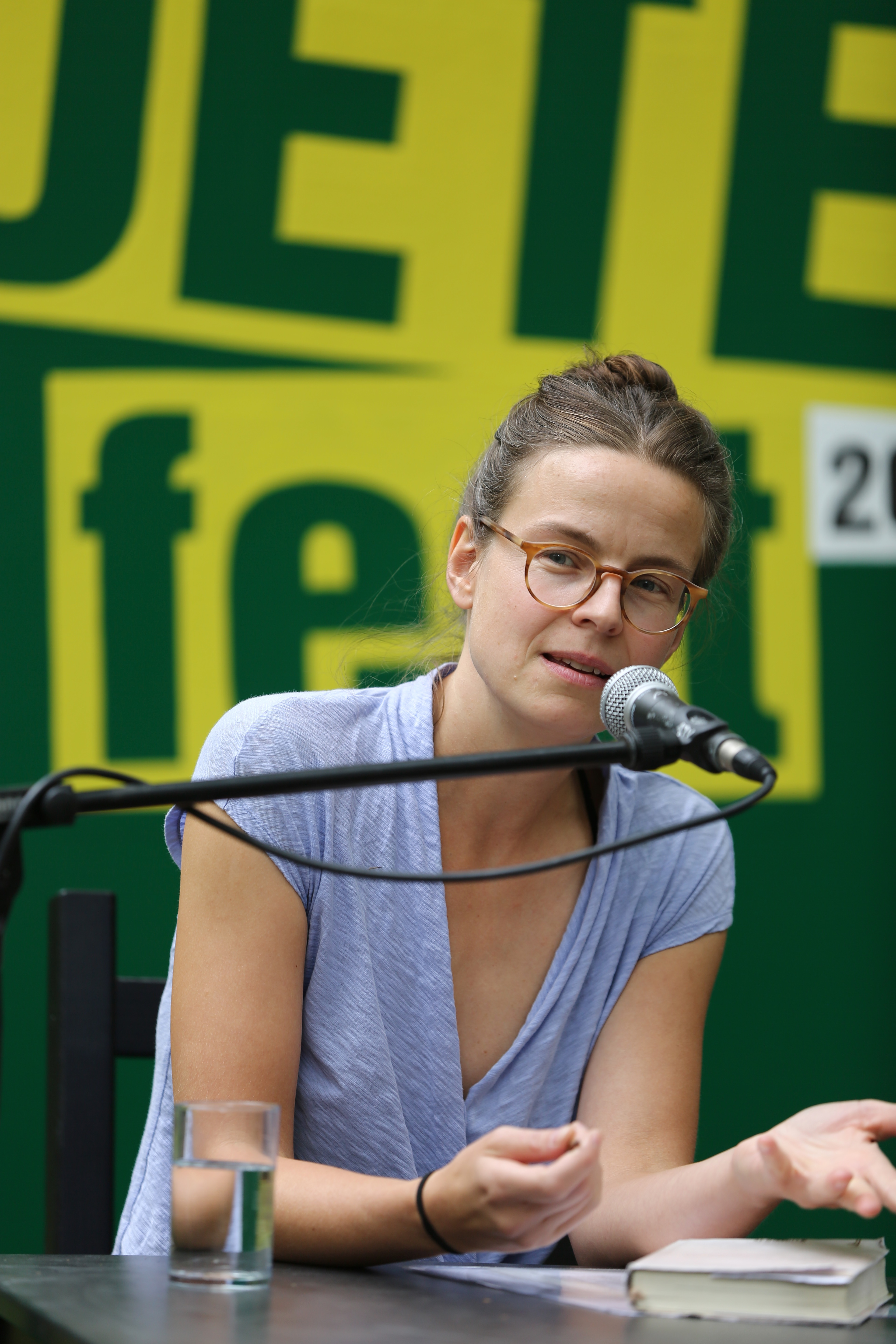 German author Kenah Cusanit presents her new novel "Babel" at Literature festival "Erlanger Poetenfest" 2019